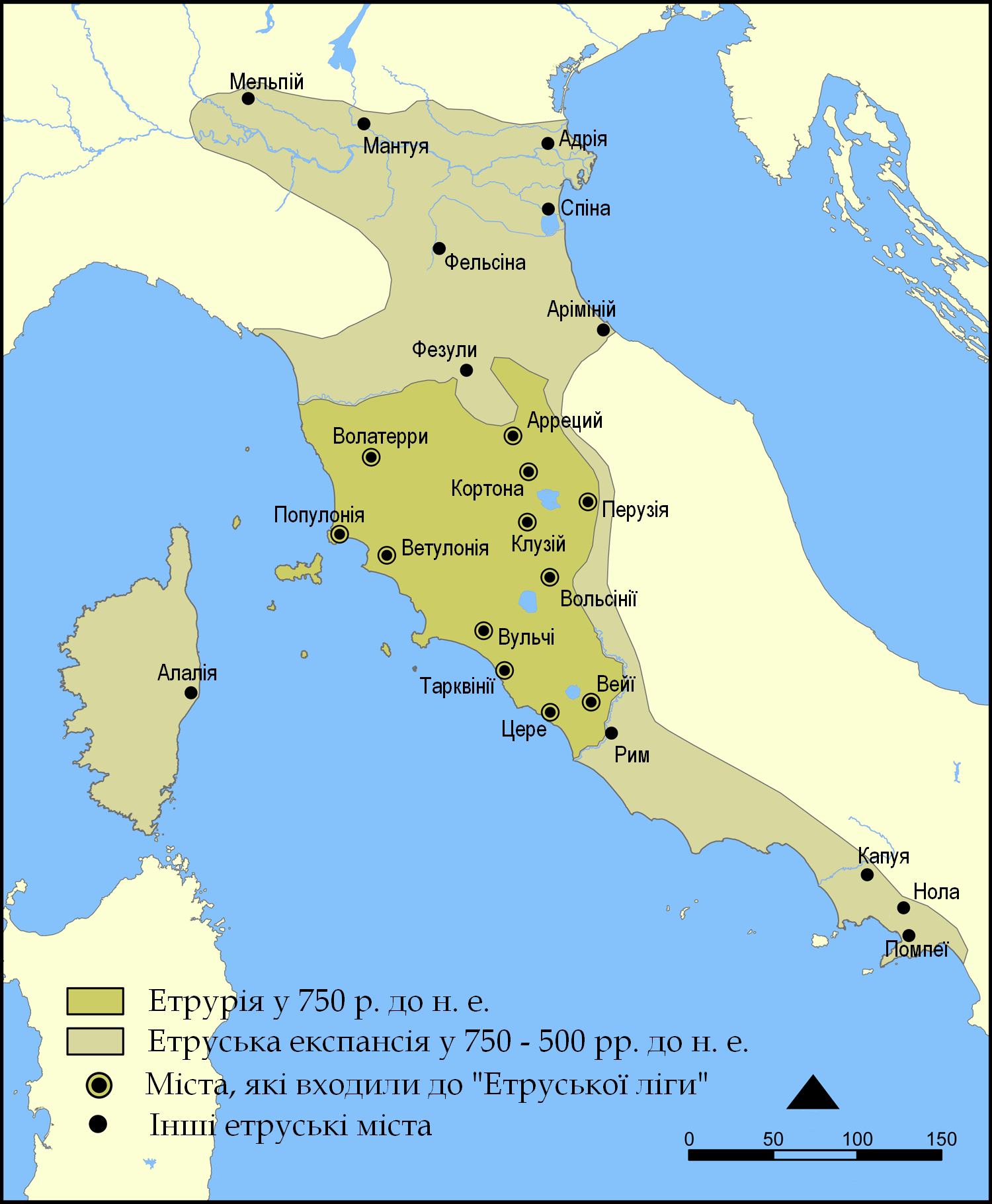 Etruscan civilization map (ukrainian)